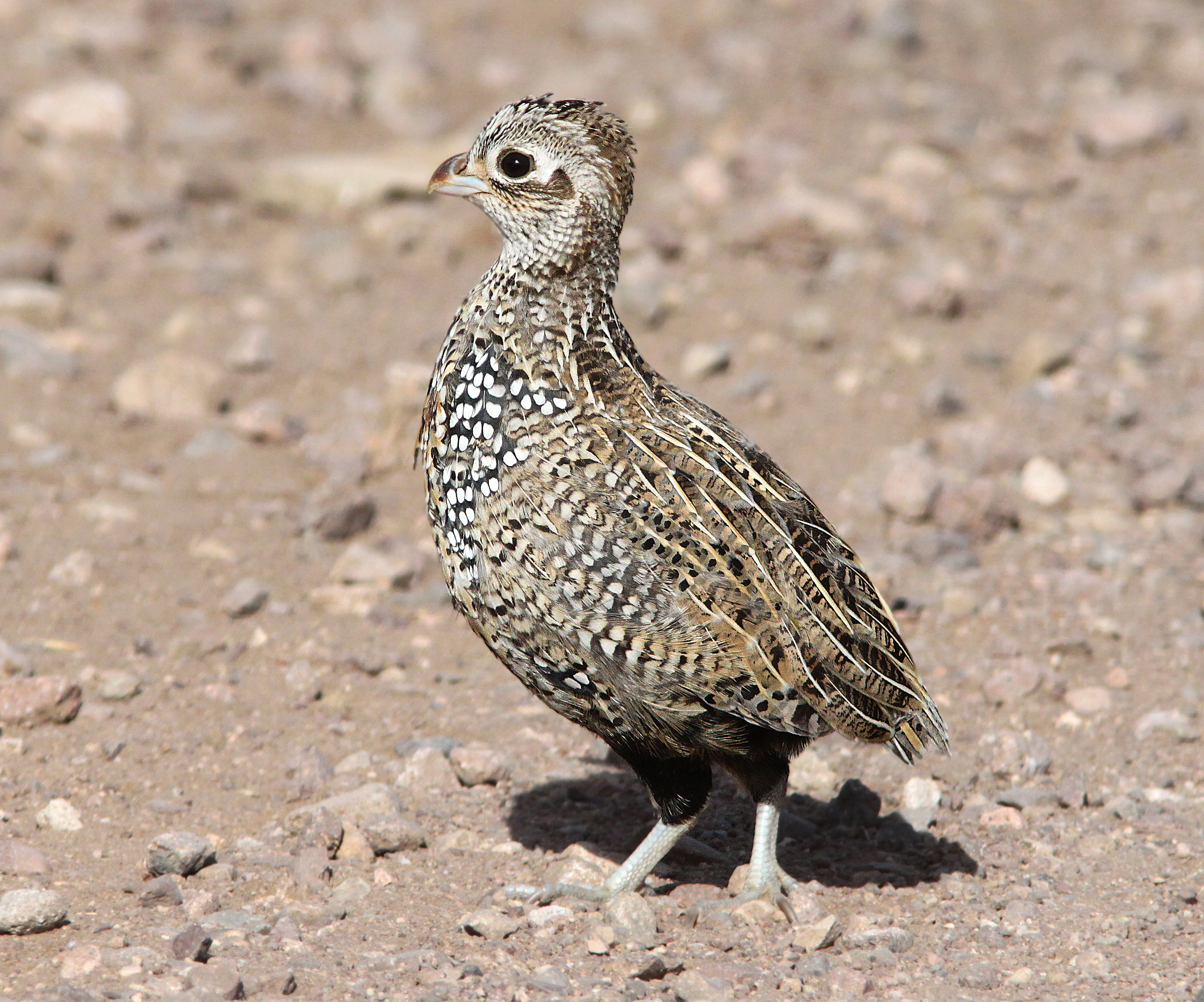 ABA AREA BIRDS: My Photo "Life List"